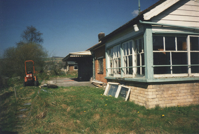 Frongoch station, Nr Bala, Gwynedd. This station was on the Bala Junction to Blaenau Ffestiniog line. At one time there was a whisky distillery here and the barrels were sent from the station. Construction of Llyn Celyn reservoir in the 1960s meant that the line would be cut four miles north west of Bala and to avoid a costly deviation the line was closed.